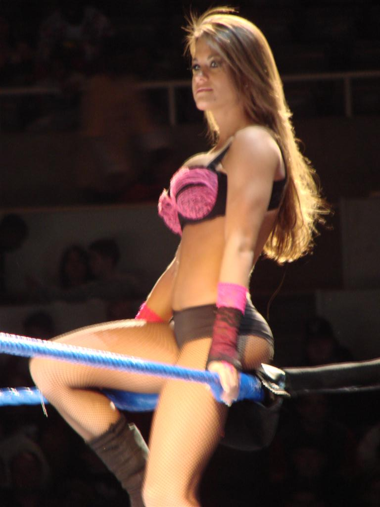 Brooke Adams at an Extreme Championship Wrestling (WWE) Live Event in Champaign, IL on February 4 en:2007.